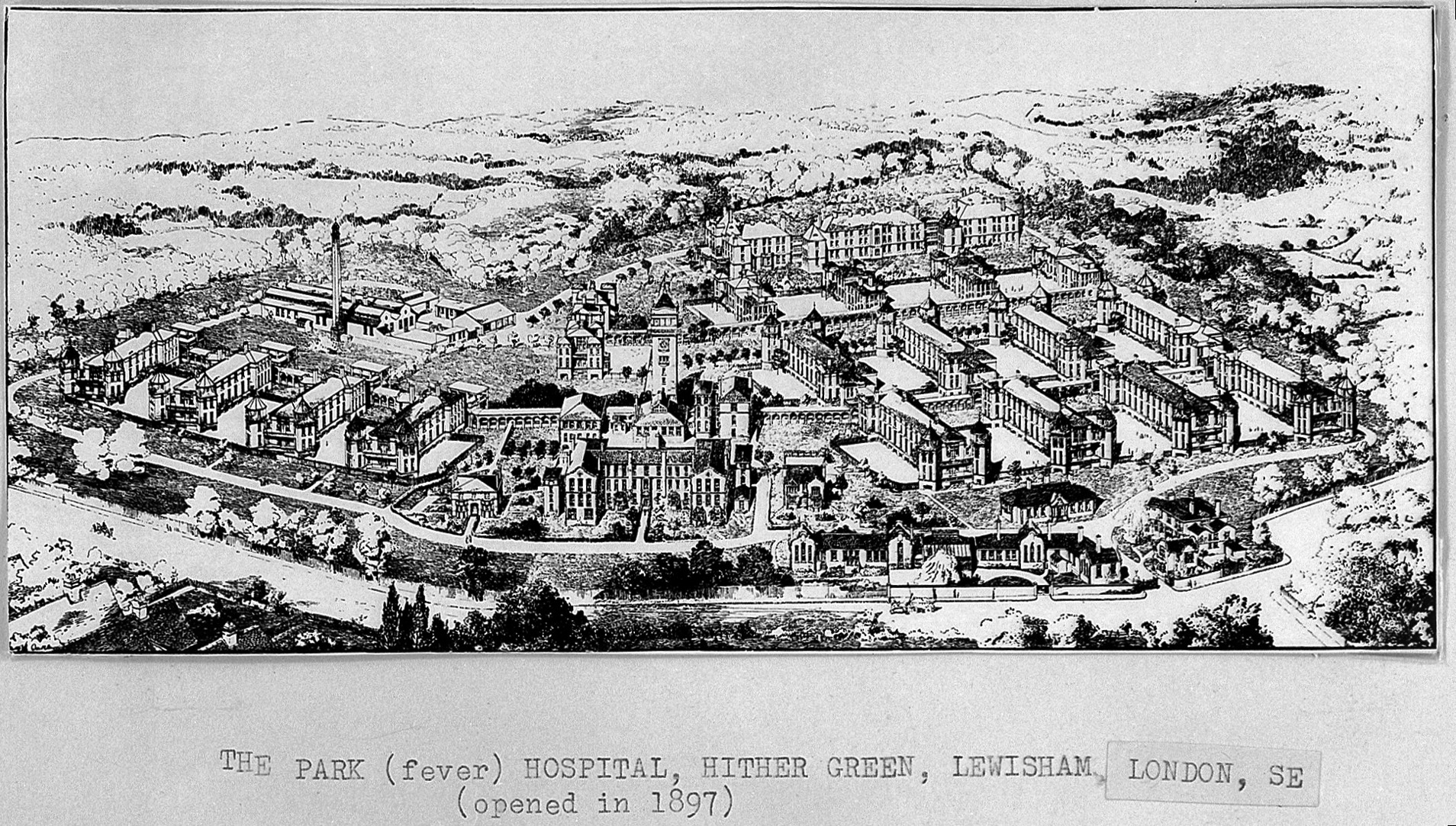 The Park (Fever) Hospital, Hither Green, Lewisham. Wellcome Images Keywords: Institutions